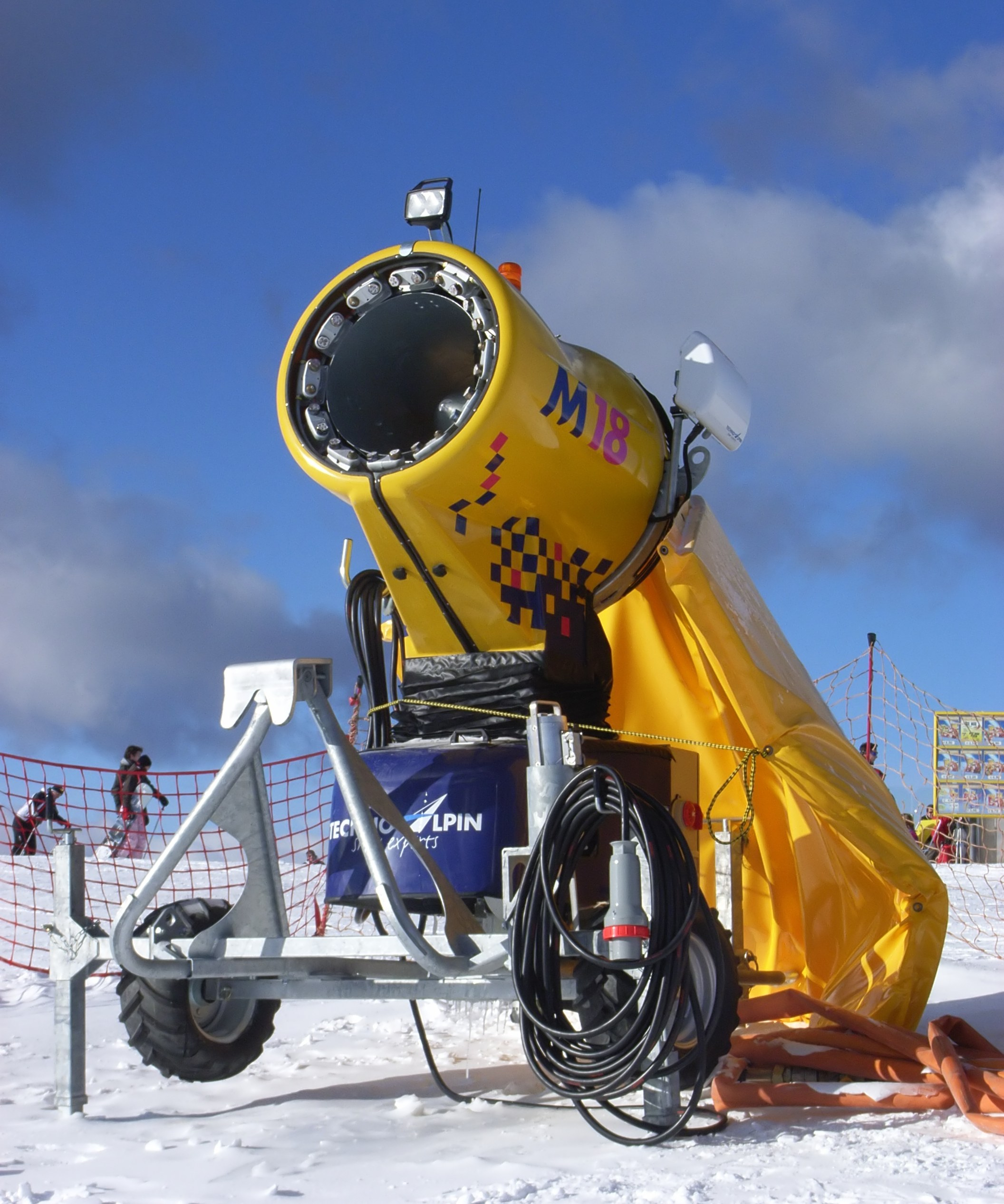 A picture of a mobile snow cannon on the top of a mountain.